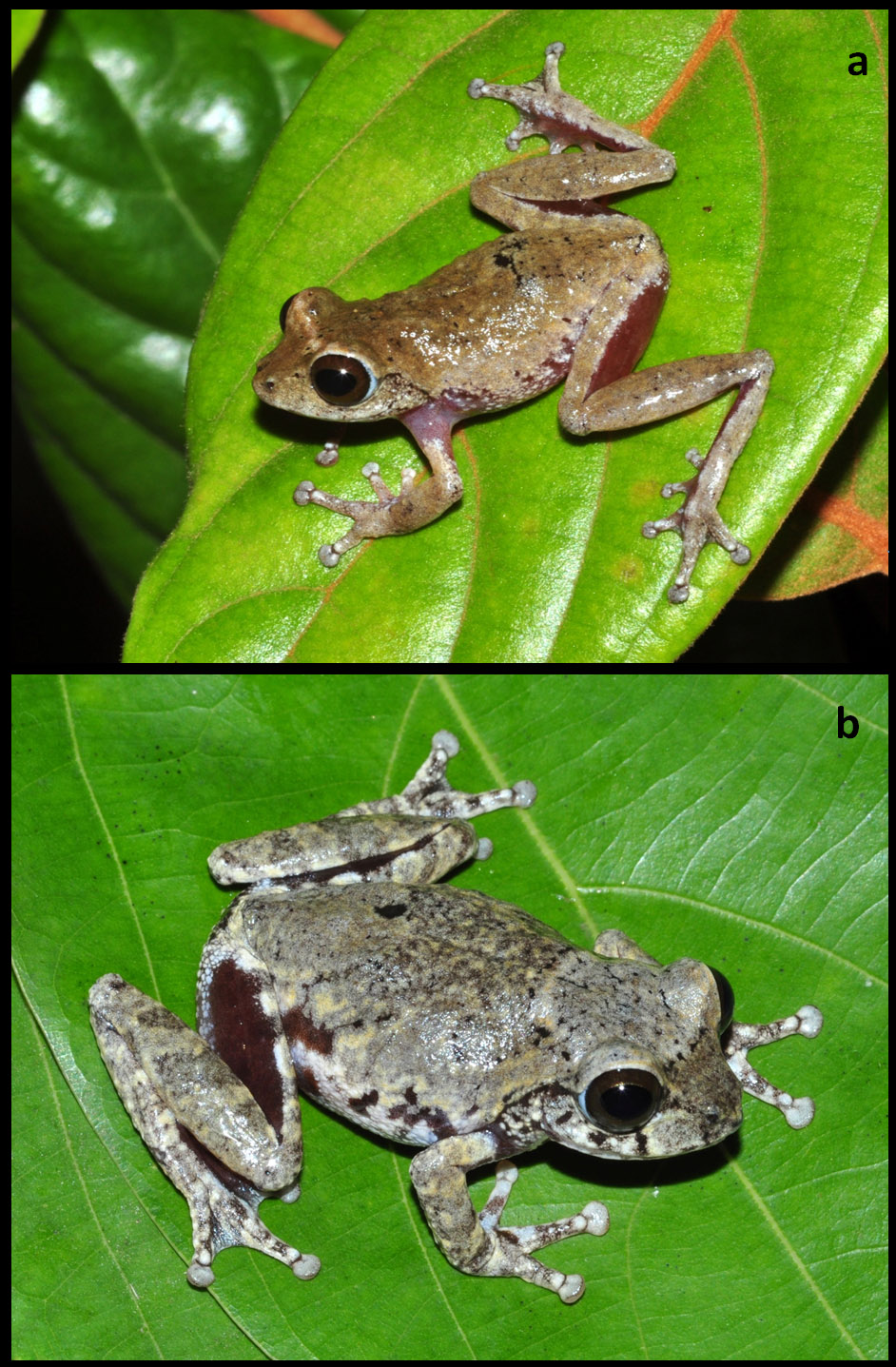 (a) male and (b) female (Holotypes in life) of Raorchestes kakachi